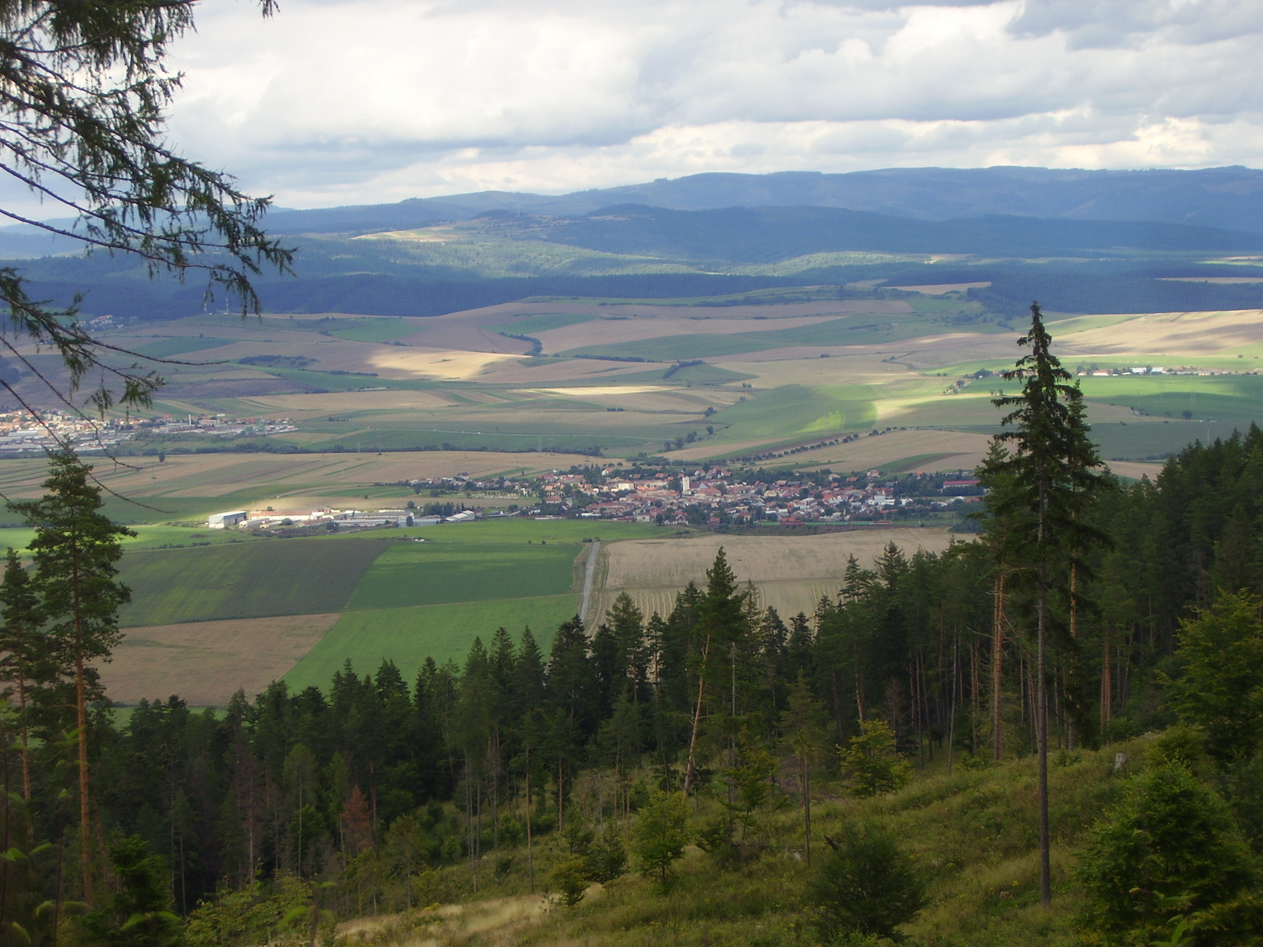 Look at Letanovce, SNV district